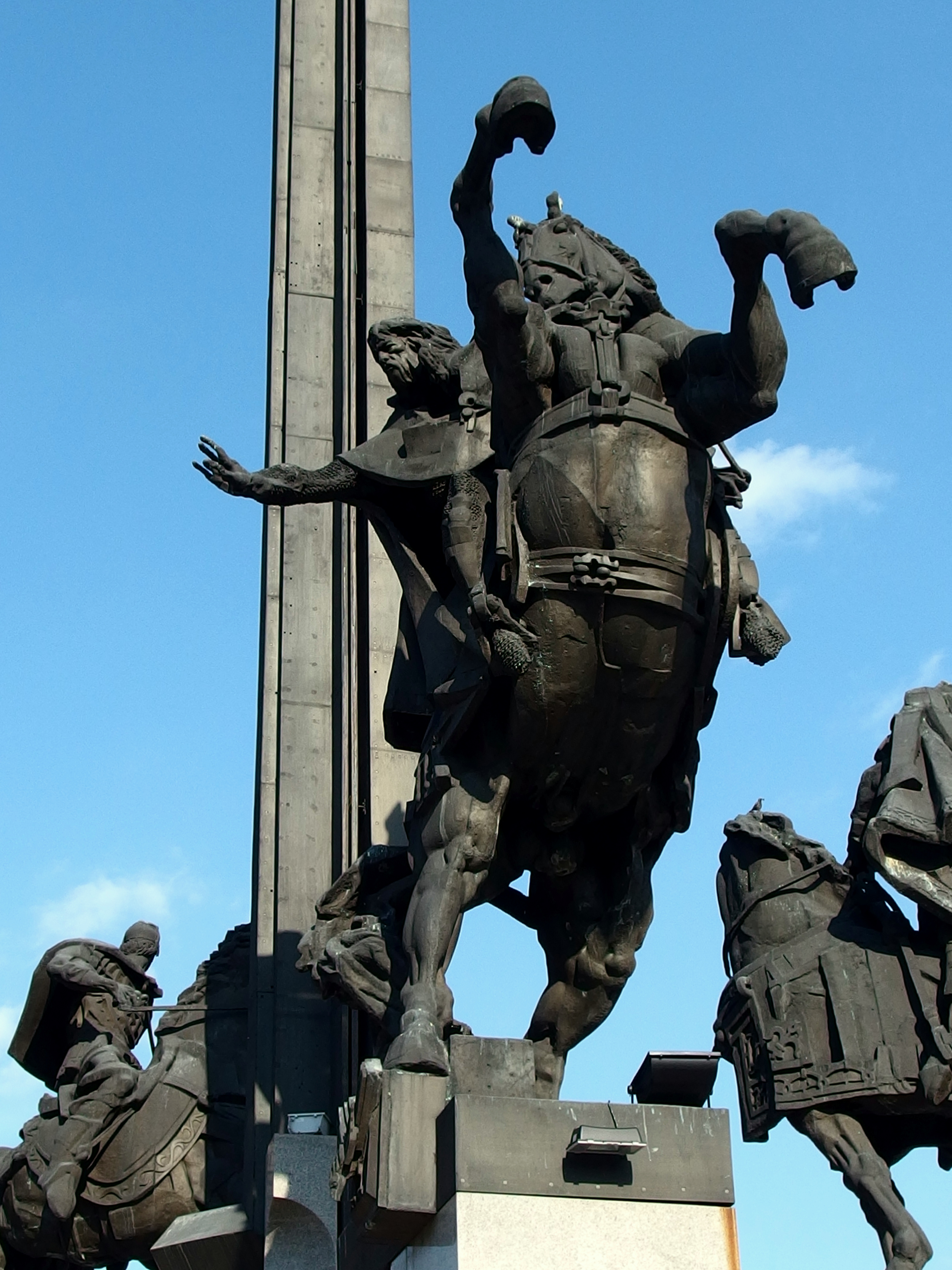 2014-06-20 in Veliko Tarnovo.